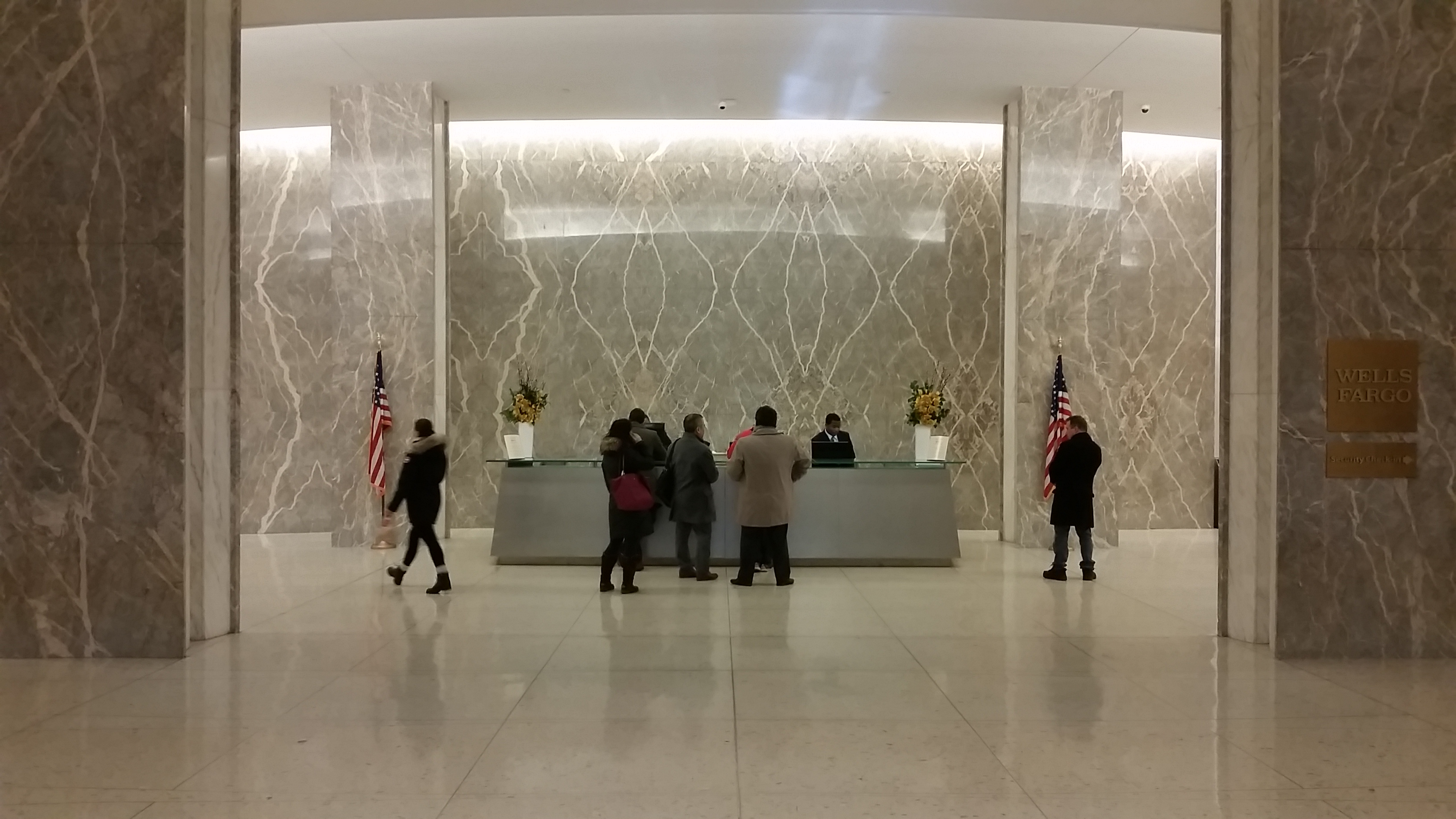 Mobile Oil Building (150 East 42 Street) lobby